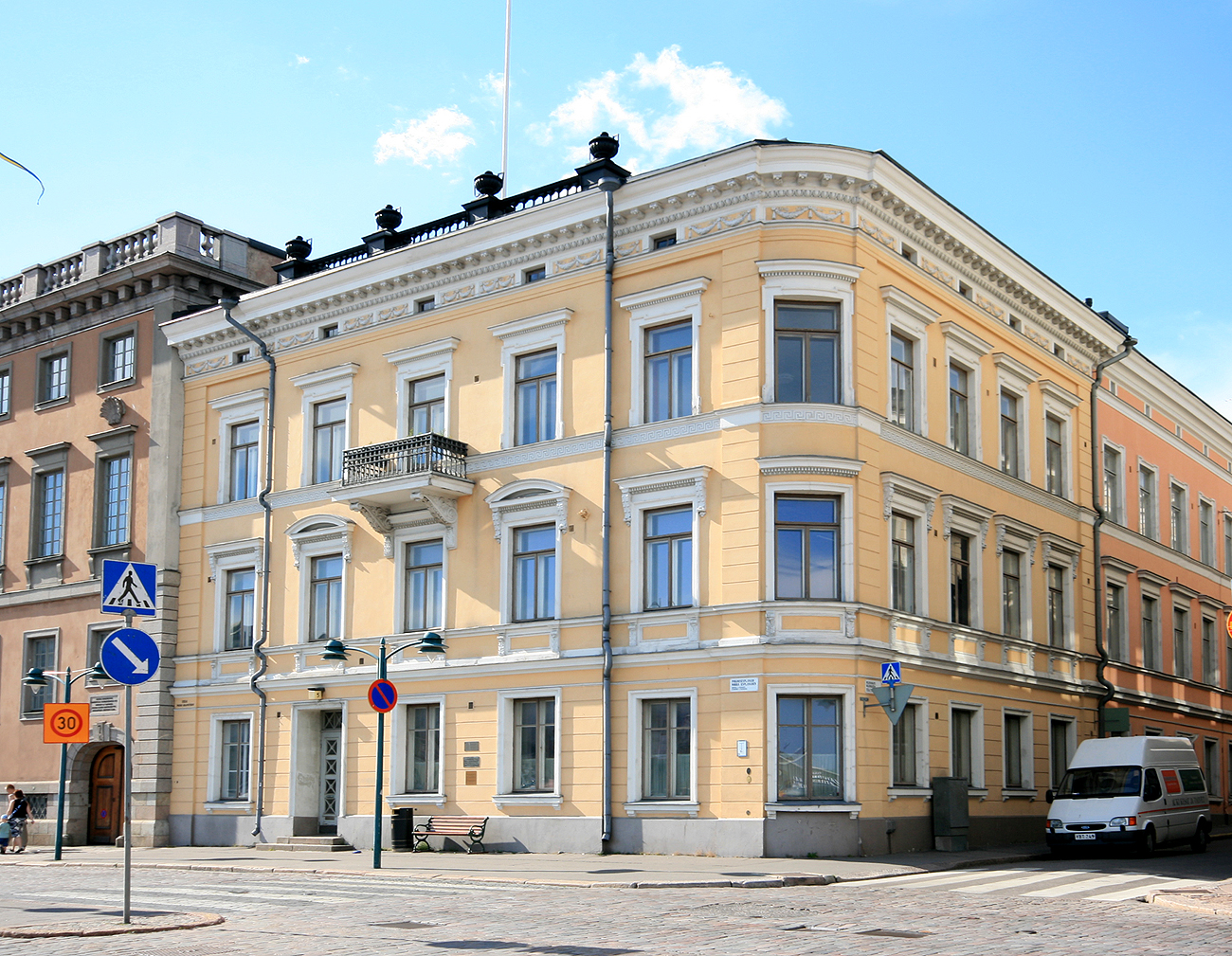 Pohjoisesplanadi 5, Helsinki. Built in 1814–1817. Architect: Pehr Granstedt.